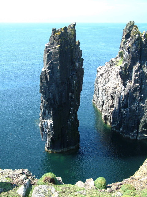 "The Bishop", Isle of May.